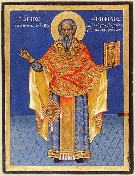 Theofil of Zihna